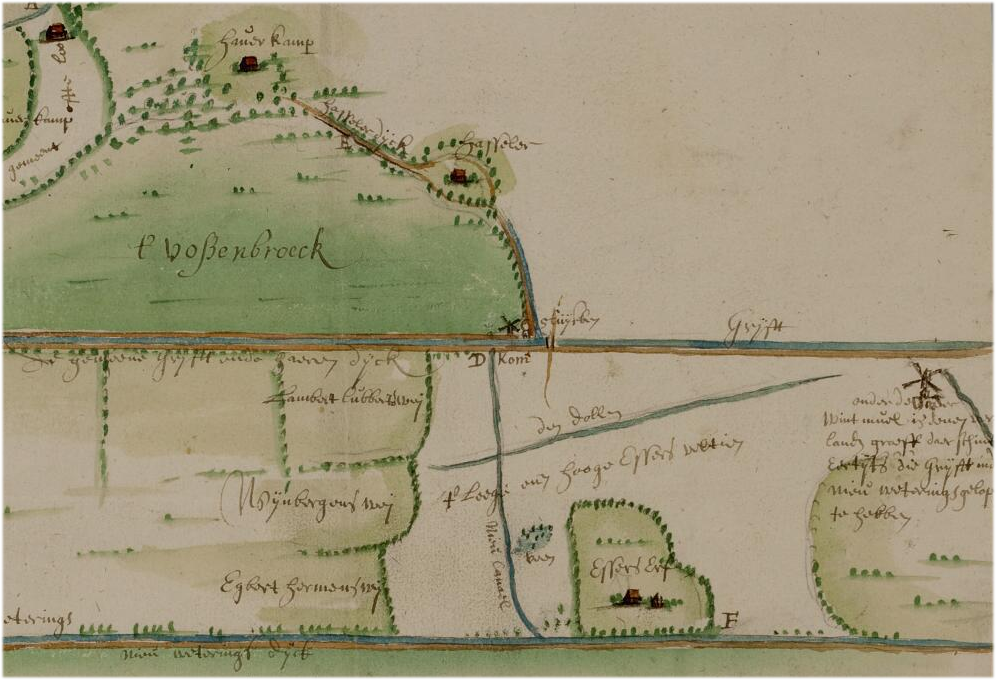 Part of bigger map: Drainage from Vossenbroek at neigbourhood Ems by Vaassen (Netherlands)